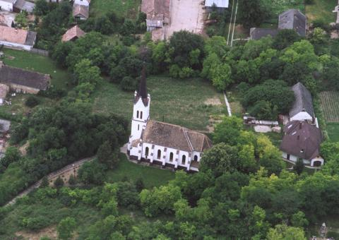 Kölesd, Hungary, aerialphotography